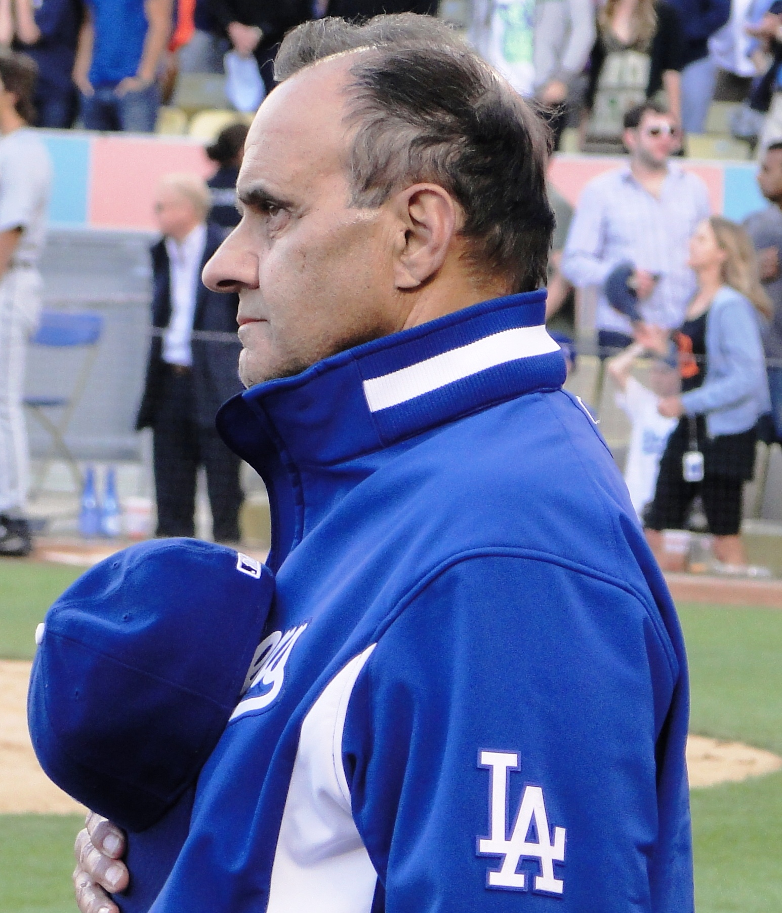 Description Joe Torre at Dodger Stadium Date22 May 2010SourceI (Cbl62 (talk)) created this work entirely by myself.AuthorCbl62 (talk) 01:30, 25 May 2010 . . Cbl62 . . 1,545×1,803 (922 KB) Joe Torre at Dodger Stadium